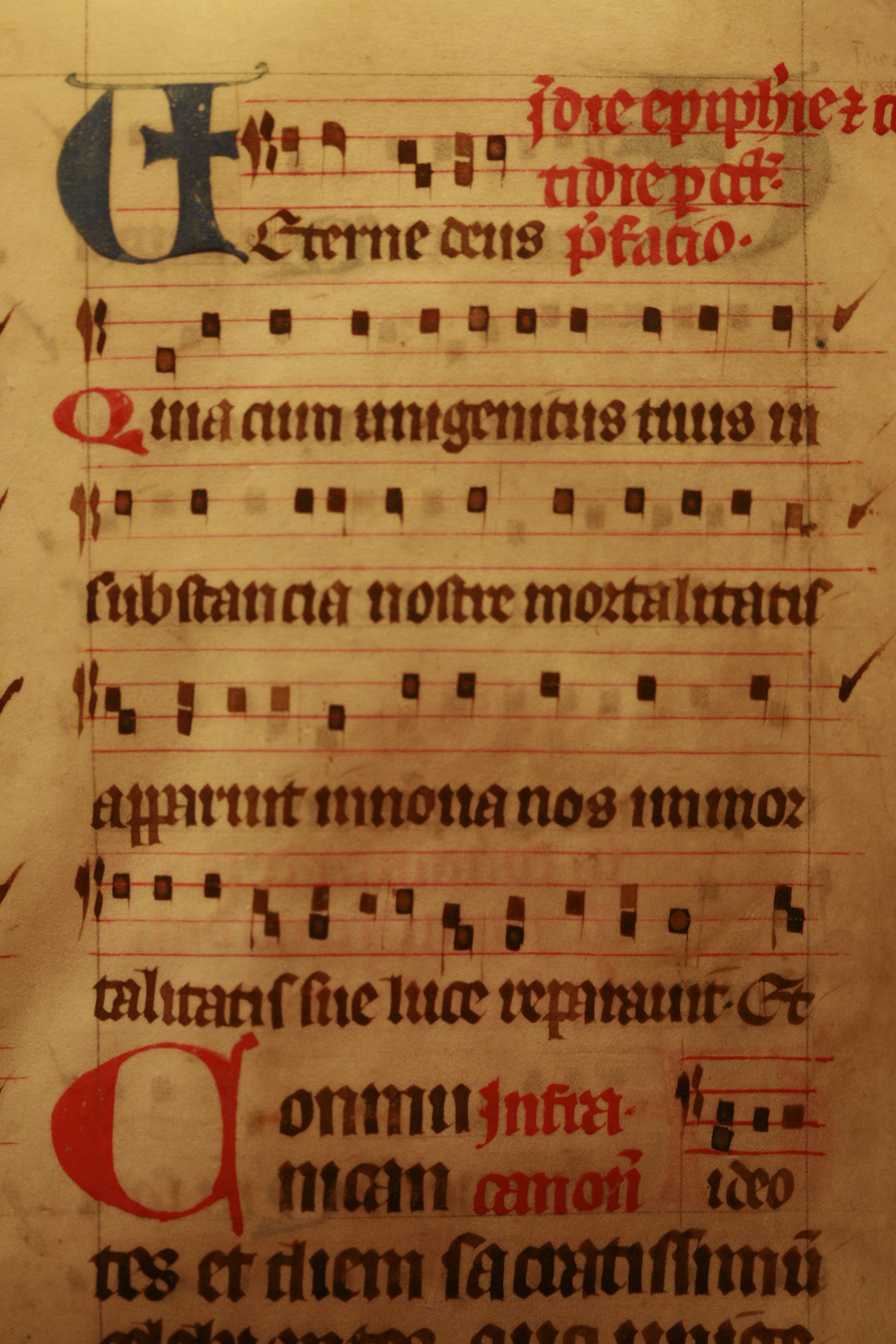 The missal of the Dominican covent of Lausanne, the oldest dominican missal currently known. Copied arouned 1240. 213 parchment sheets, binding of the 16th century. On display at the Historical Museum of Lausanne.